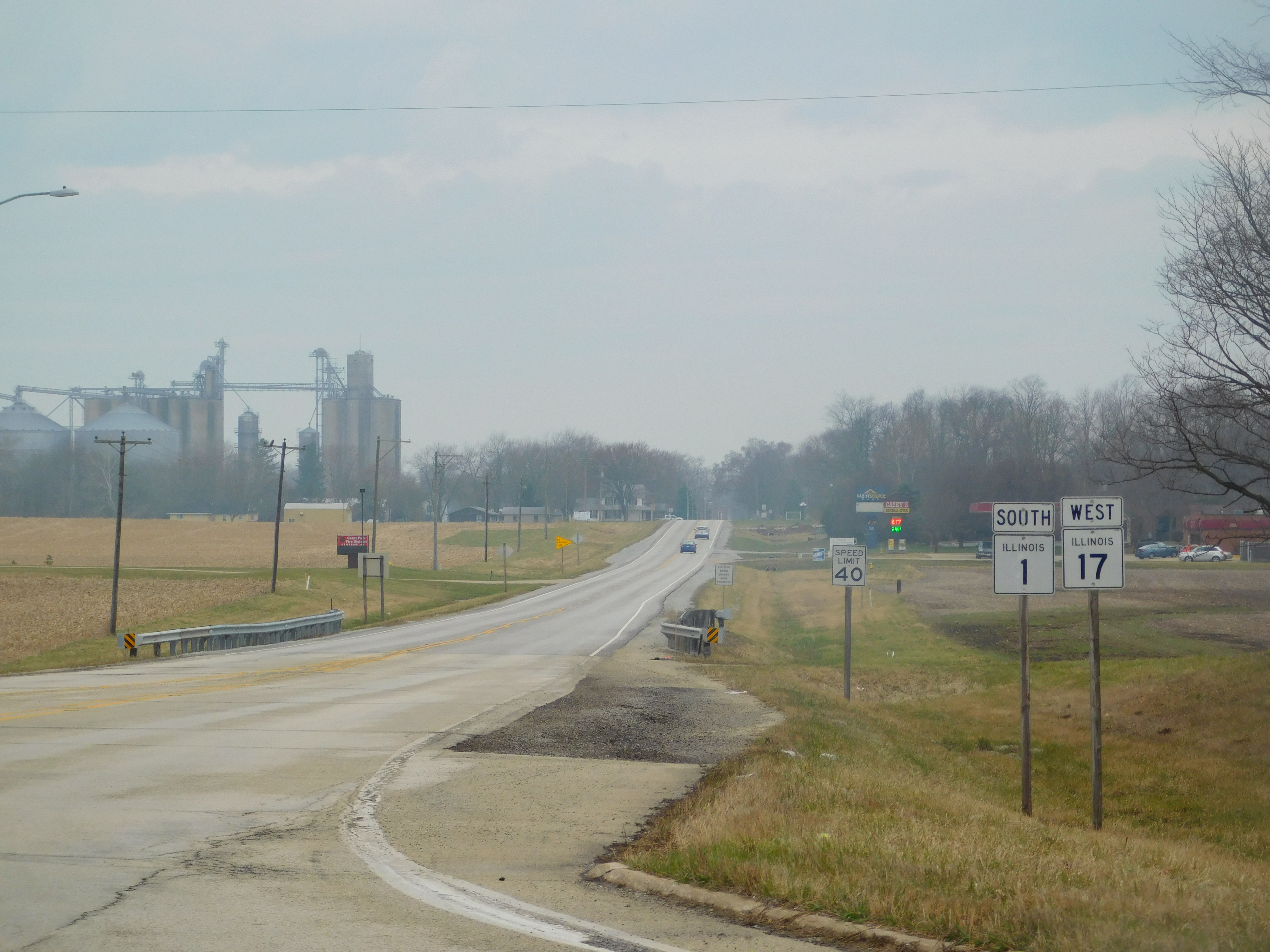 Illinois Route 1 and Illinois Route 17 in the village of Grant Park, Illinois.